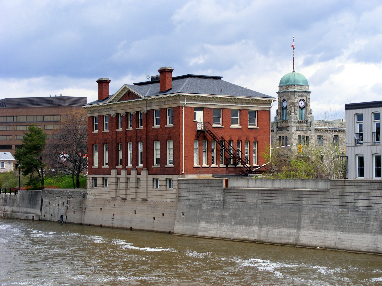 Galt Public Library building in Cambridge, Ontario. It functioned as a library from its opening in 1903 until 1969.